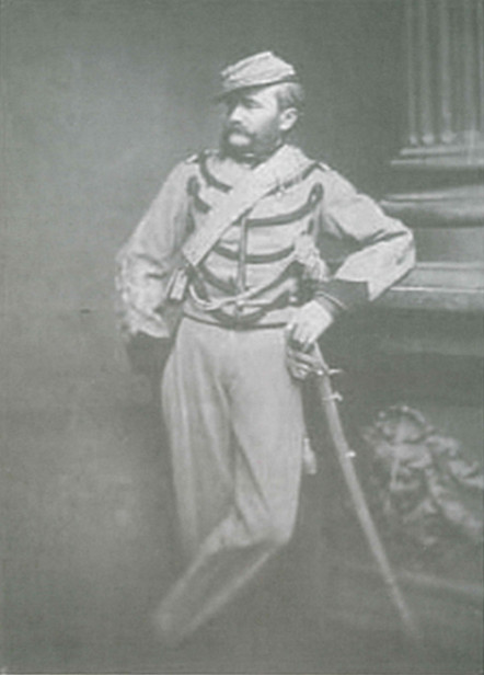 Giuseppe Nuvolari, Italian entrepreneur and Giuseppe Garibaldi volunteer